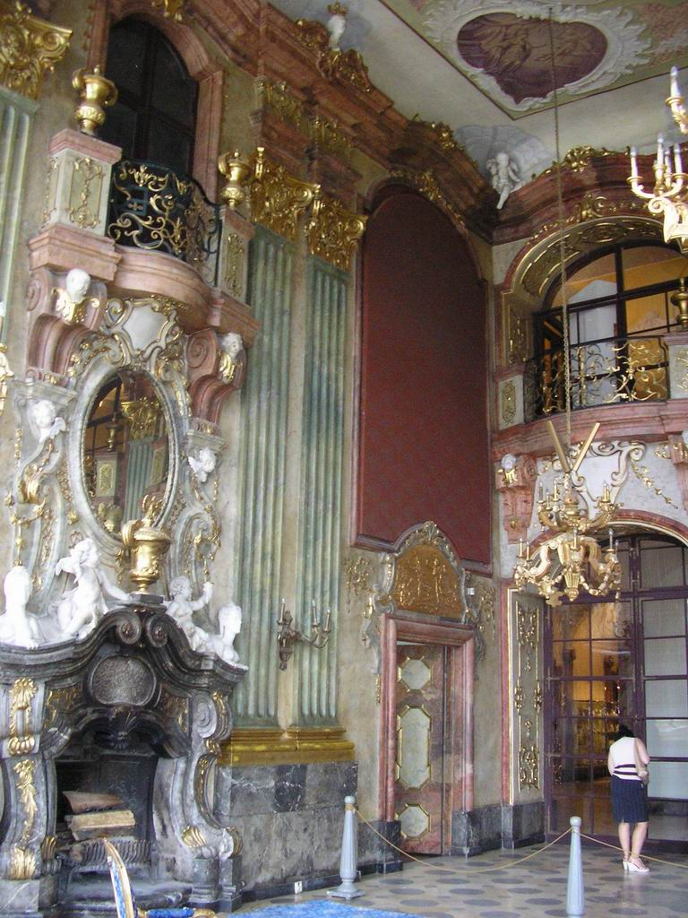 Maximilian's hall-a fireplace (Ksiaz)